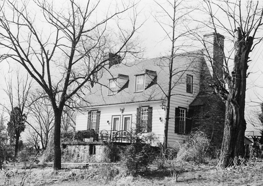 At the end of the eighteenth century this tavern elicited the warmest praise form the Englishman, John Davis who was a visitor in the household of the Ellicott family in Occoquan. Davis wrote as an habitue who frequently enjoyed the food and drink dispensed therein: On the side of this bridge stands a tavern, where every luxury that money can purchase is to be obtained at the first summons: where the richest viands cover the table and where ice cools the Madiera that has been thrice across the ocean. The apartments are numerous and at the same time spacious; carpets of delicate texture cover the floors, and glasses are suspended from the walls in which a Goliath might survey himself. No man can be more complaisant than the landlord. Enter but his house with money in your pocket and his features will soften into the blandishments of delight; call and your mandate is obeyed; extend your leg and the bootjack is brought you.